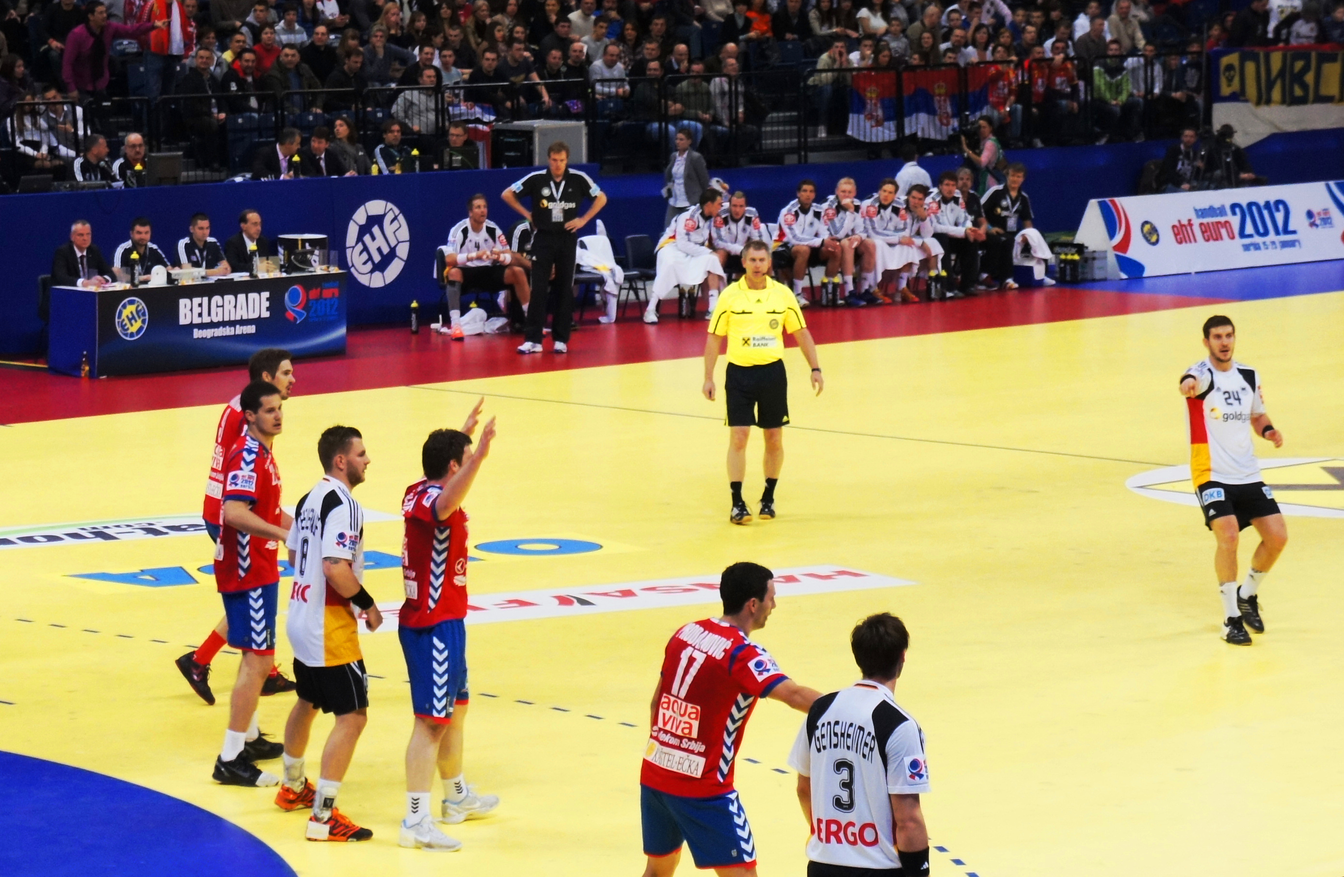 Serbia vs Germany. 2012 European Men's Handball Championship, Belgrade Arena, Serbia.